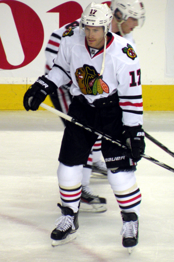 Chicago Blackhawks forward Brendan Morrison prior to a National Hockey League game against the Calgary Flames.